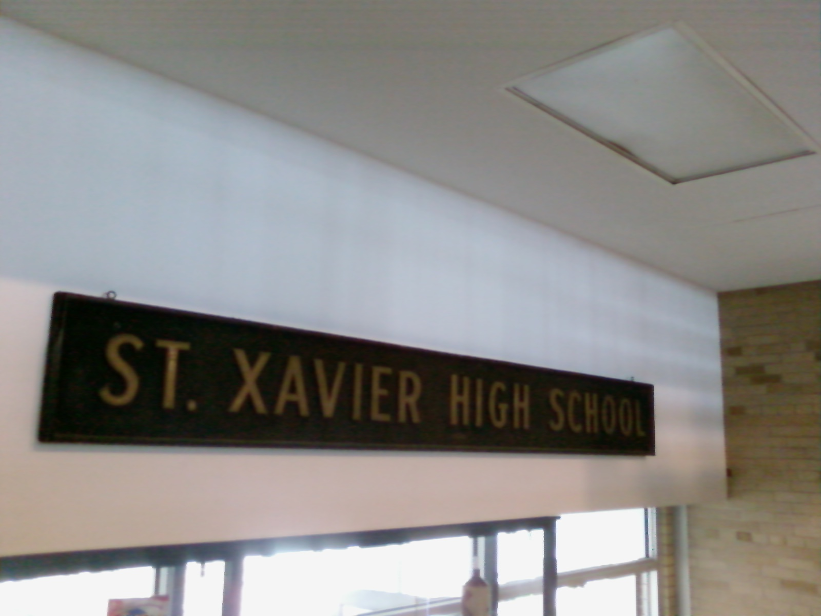 A metal sign that hung at the main entrance of St. Xavier High School, until the entrance was remodeled in 1998. It now hangs in the main stairwell, above the doorway leading to the chapel foyer. The sans-serif lettering reads "ST. XAVIER HIGH SCHOOL".